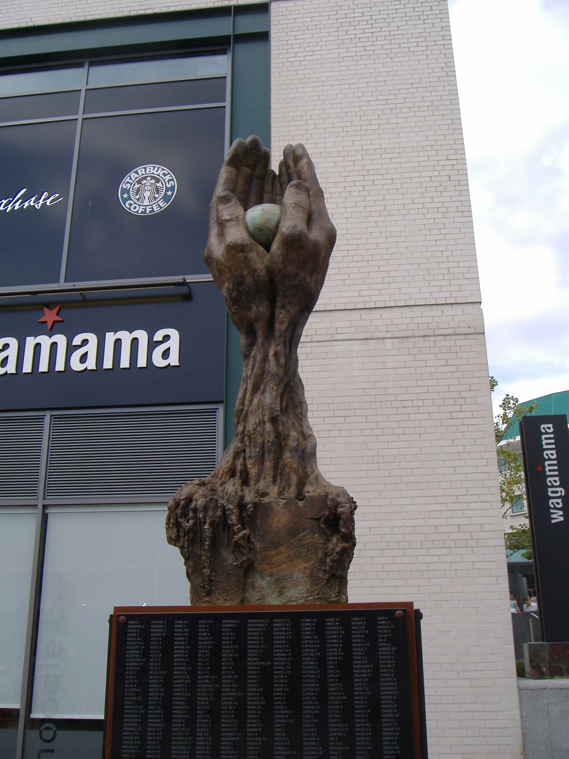 Created by Erebus555. This is the Tree of Life memorial in the Bull Ring dedicated to the victims of the Birmingham Blitz.